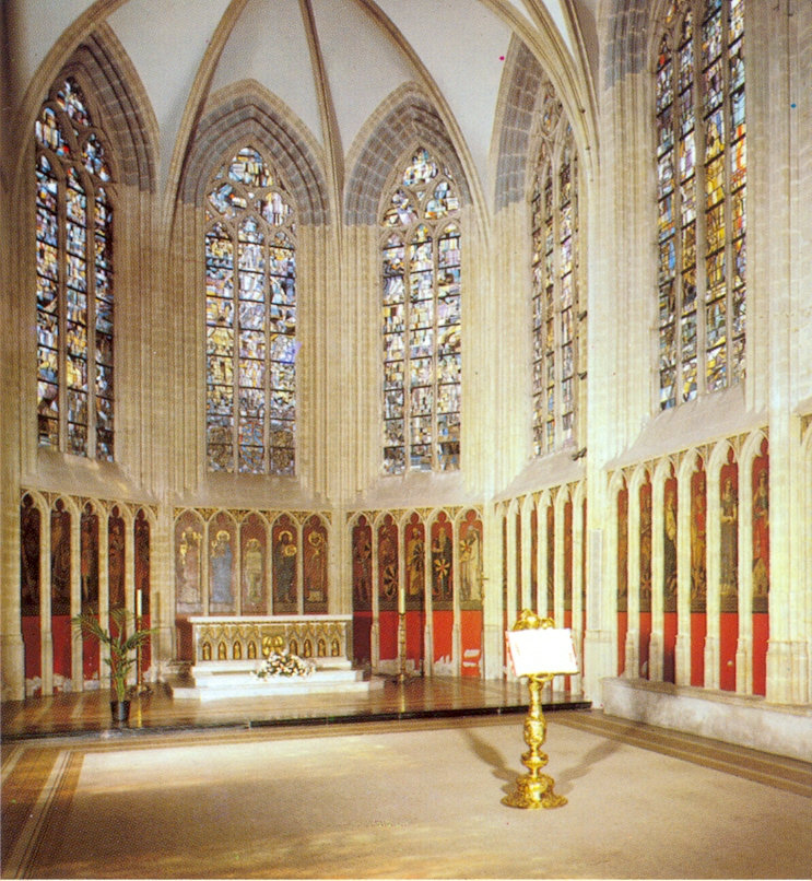 interior of the Count's Chapel in Courtrai